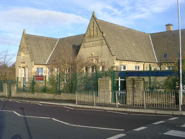 Thackley Primary School - Town Lane